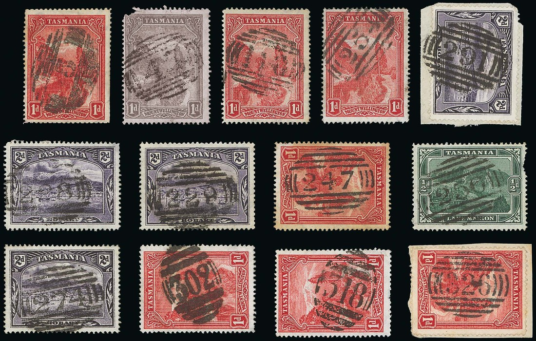 Second Numeral Cancellations 1861-1900 A collection on Pictorial values, covering 218 different numerals with R (16), 2R (16), 3R (7) and 4R (2), mostly good to fine strikes with a few superb.